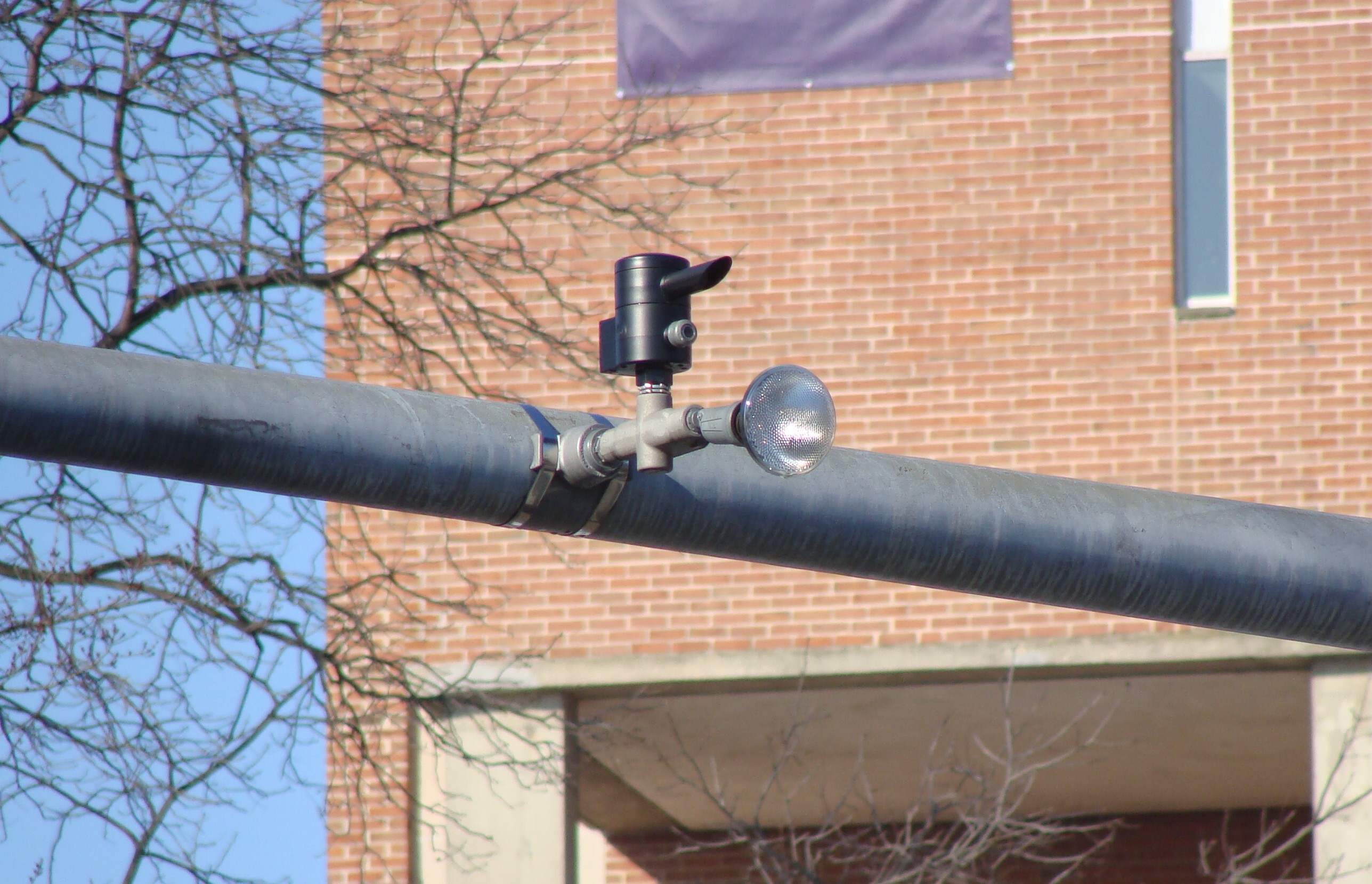 Opticom notifier and reciever on a traffic light in Millersville, Pennsylvania.